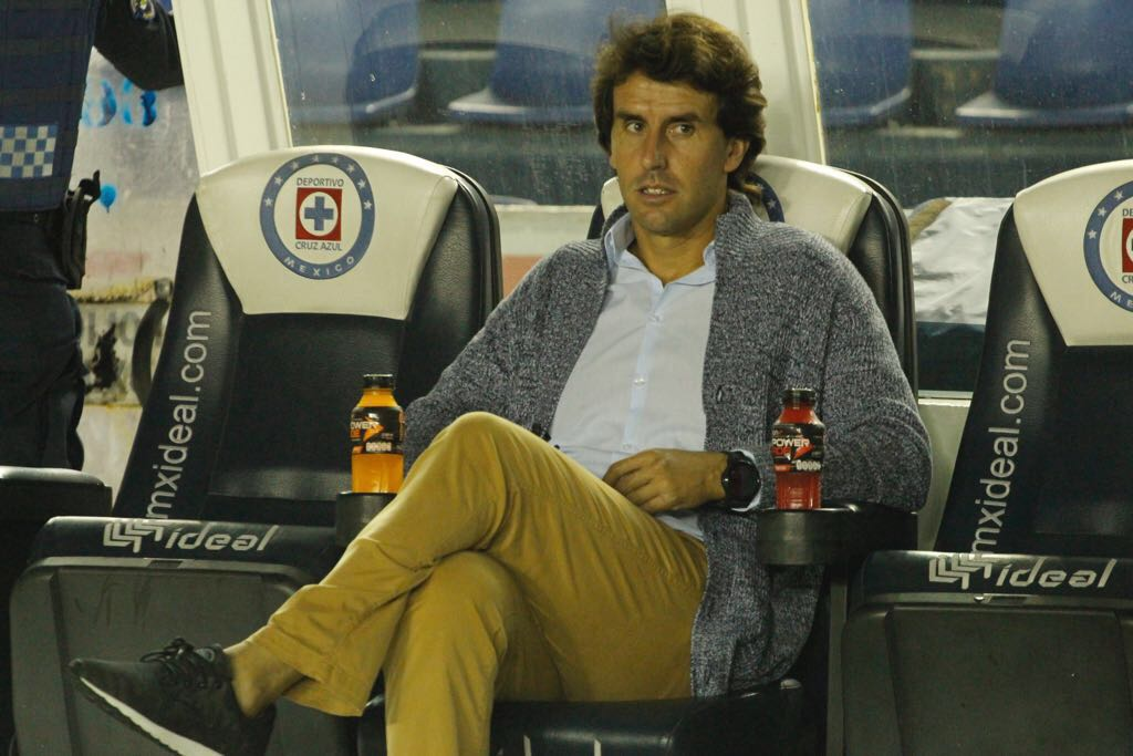 En partido